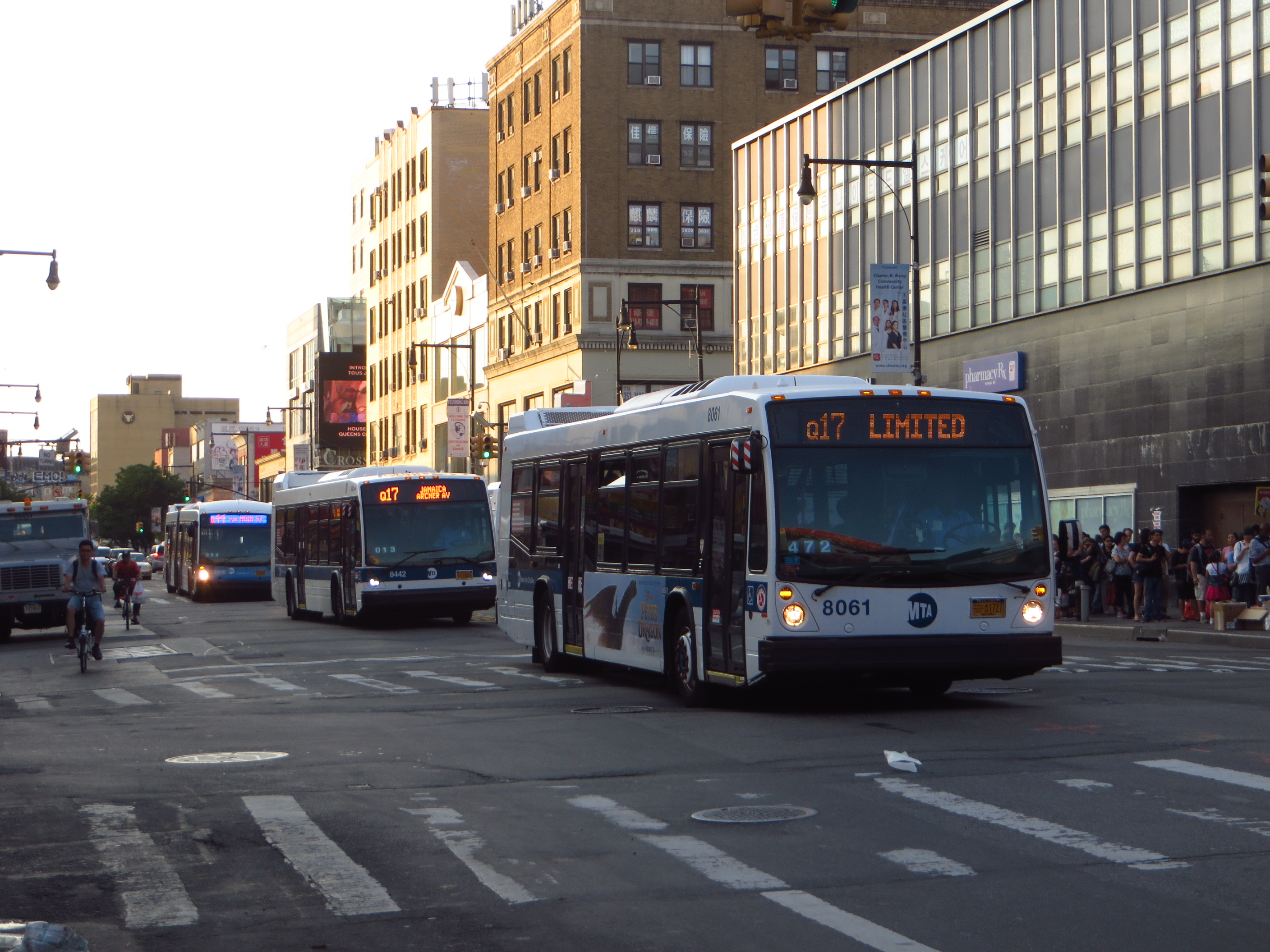 A lineup of three MTA New York City Transit Nova Bus LFS buses in Flushing, Queens, NYC. From front to back: 2011 LFS Gen-3 #8061 on the Q17 Limited, 2016 LFS Gen-4 8442 on the Q17, and 2012 LFS artic Gen-3 #5930 on the Q44 Select Bus Service.